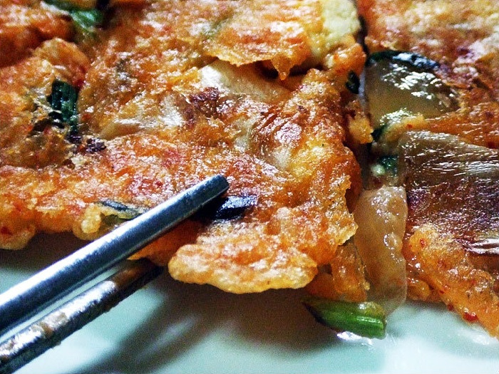 Kimchi-buchimgae (kimchi pancake)